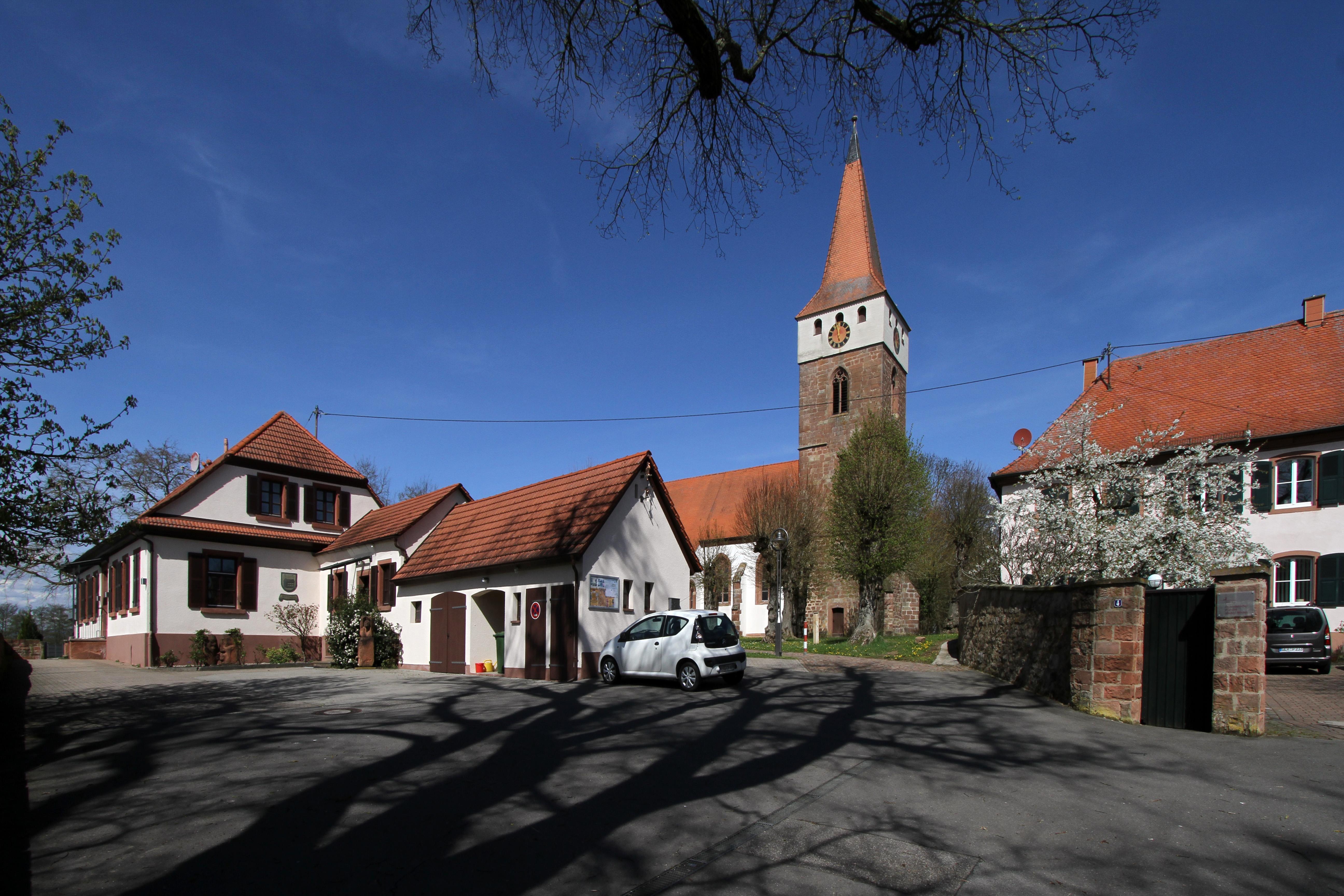 Protestant church in Minfeld.